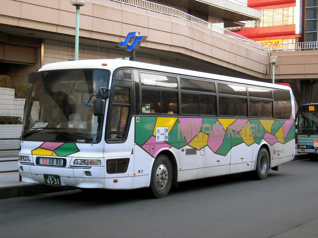 Miyako bus (Tsukidate) Mitsubishi Fuso Aero Bus (KC-MS829P)